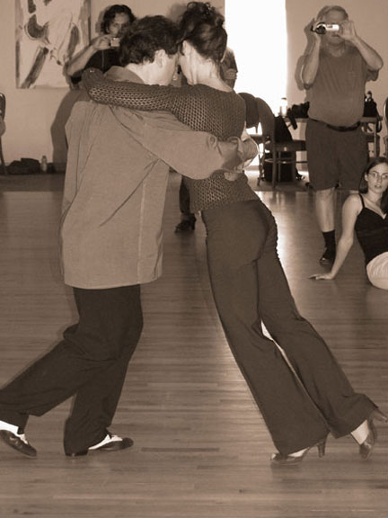 Gustavo Naveira and Giselle Anna demonstrate volcada during the workshop on volcadas in Boulder, Colorado.